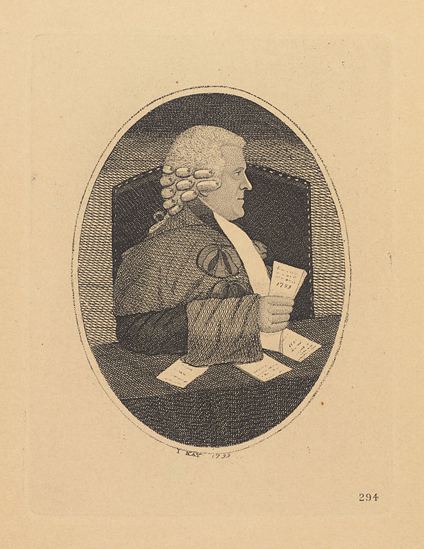 William Bannatyne, Lord Bannatyne (1743-1833)